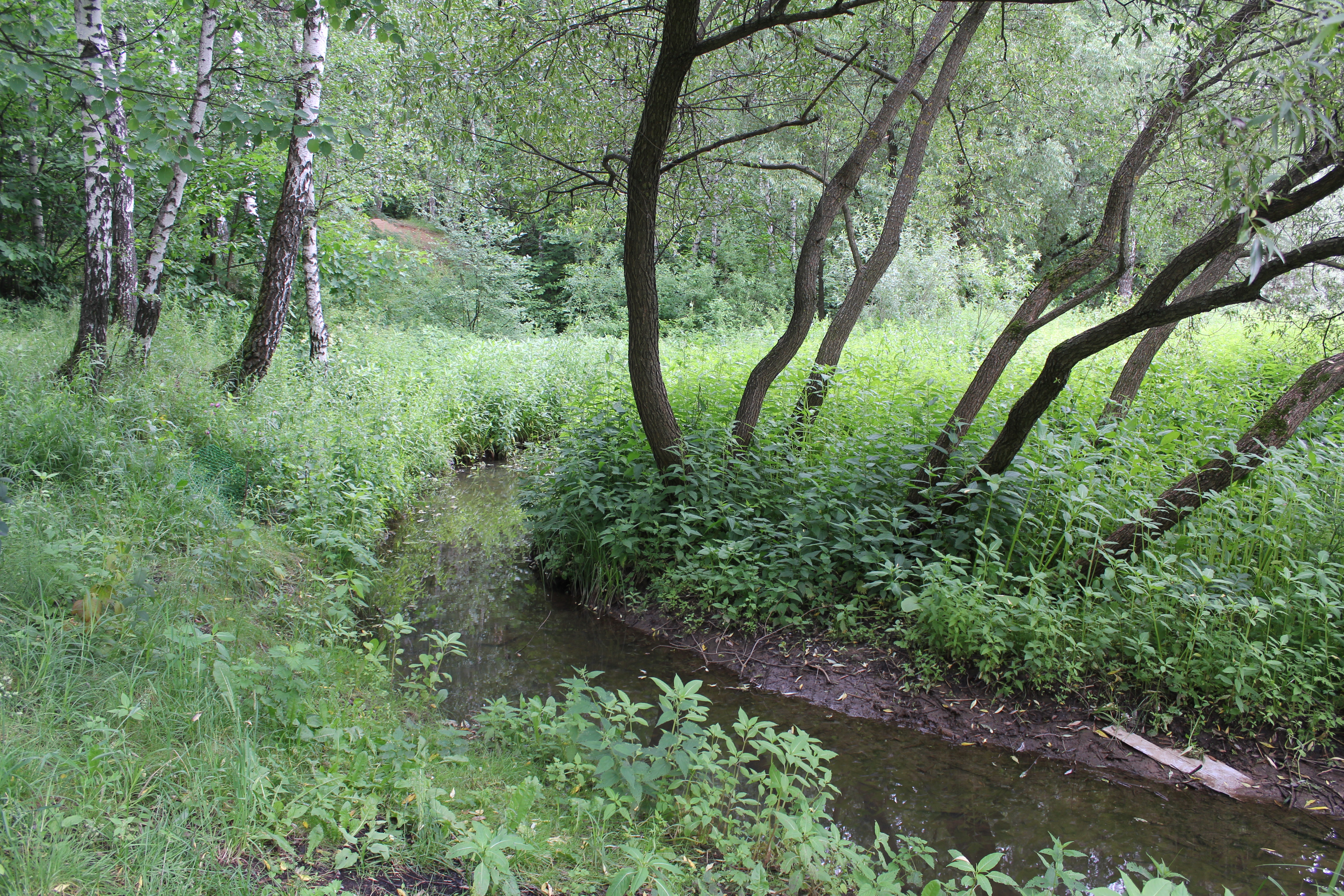 View at Ochakovka river Valley in Tyoply Stan landscape zakaznik. This image is related to the protected area of Russia number 7710093